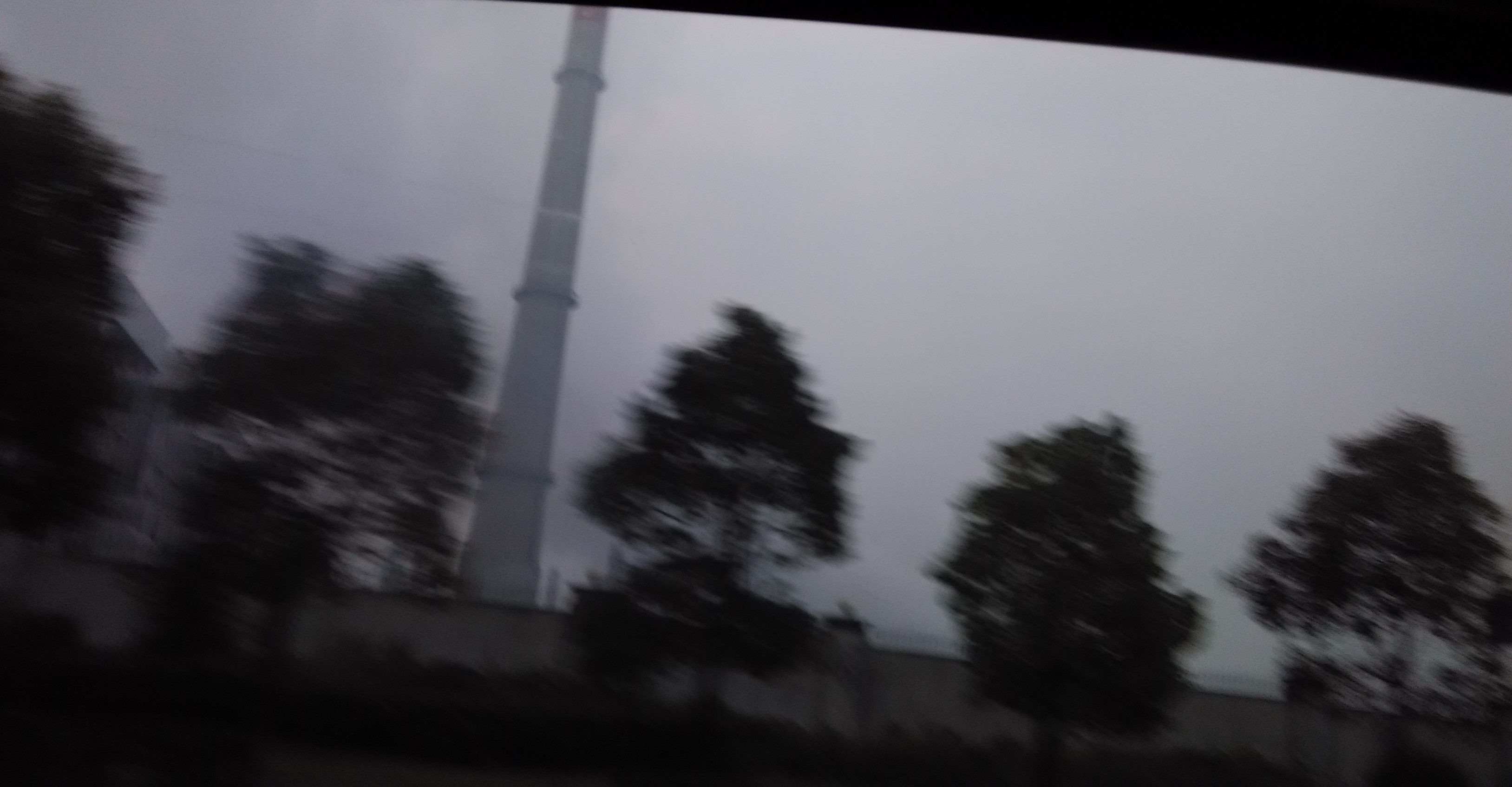 a Chimney in sichuan Petrochemistry，put dirty air outside.